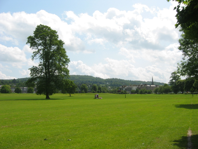 The North Inch, Perth, Scotland. Photo taken by Dudesleeper on June 7, 2003.